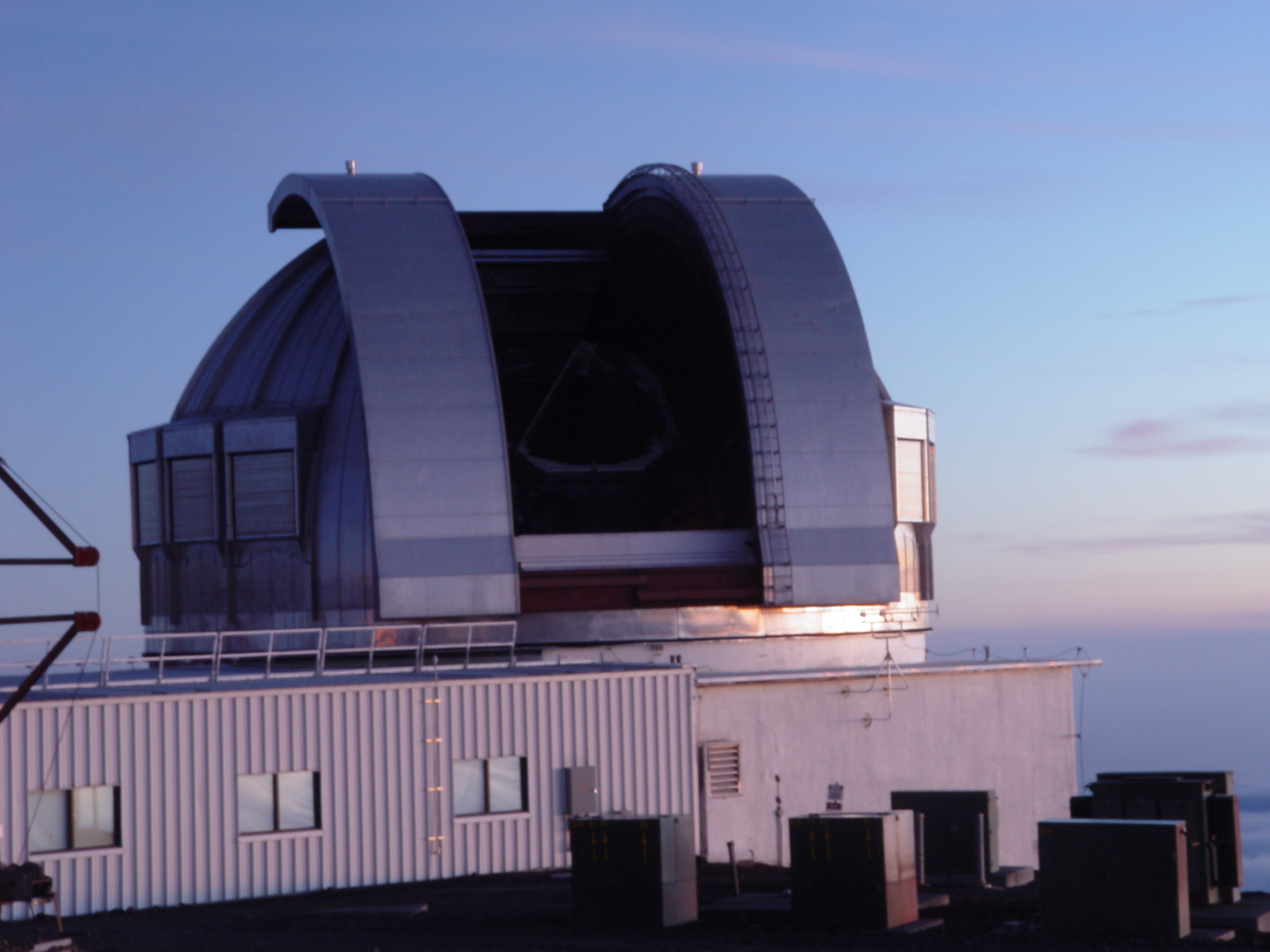 The UKIRT on Mauna Kea at sunset.